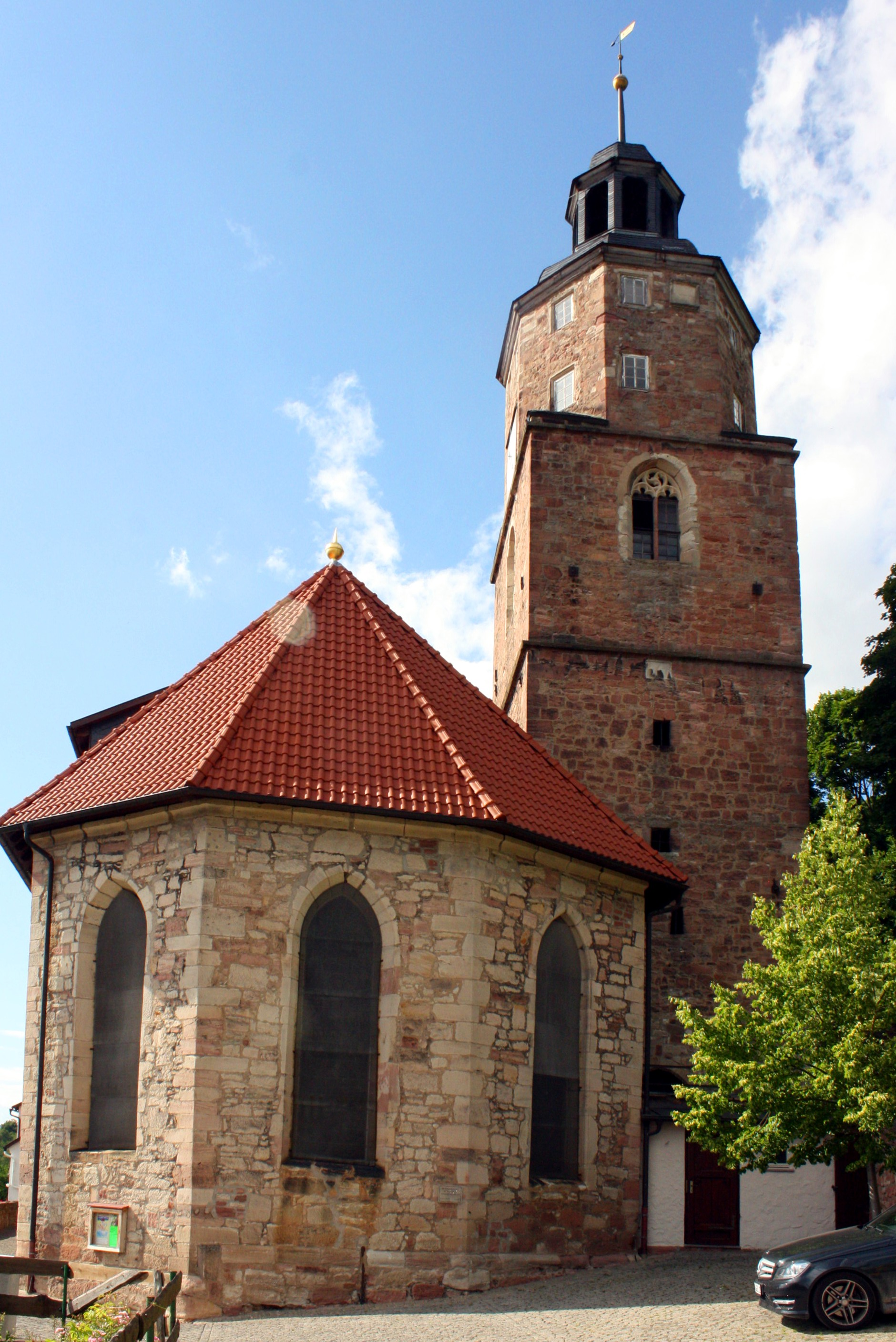 Church in Wasungen near Meiningen/Thuringia